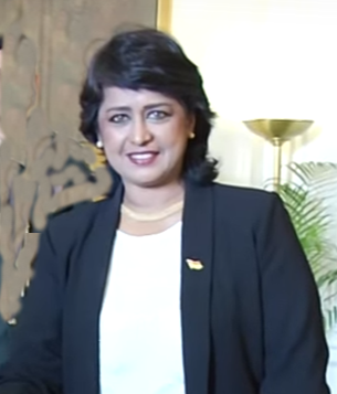 President of the Republic of Mauritius, Ameenah Gurib,(whlist calling on the President of India-December 7, 2015.)